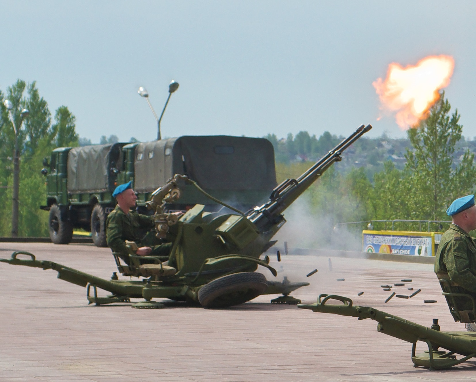 Cropped image of Zu-23-2 antiaircraft autocannon, firing